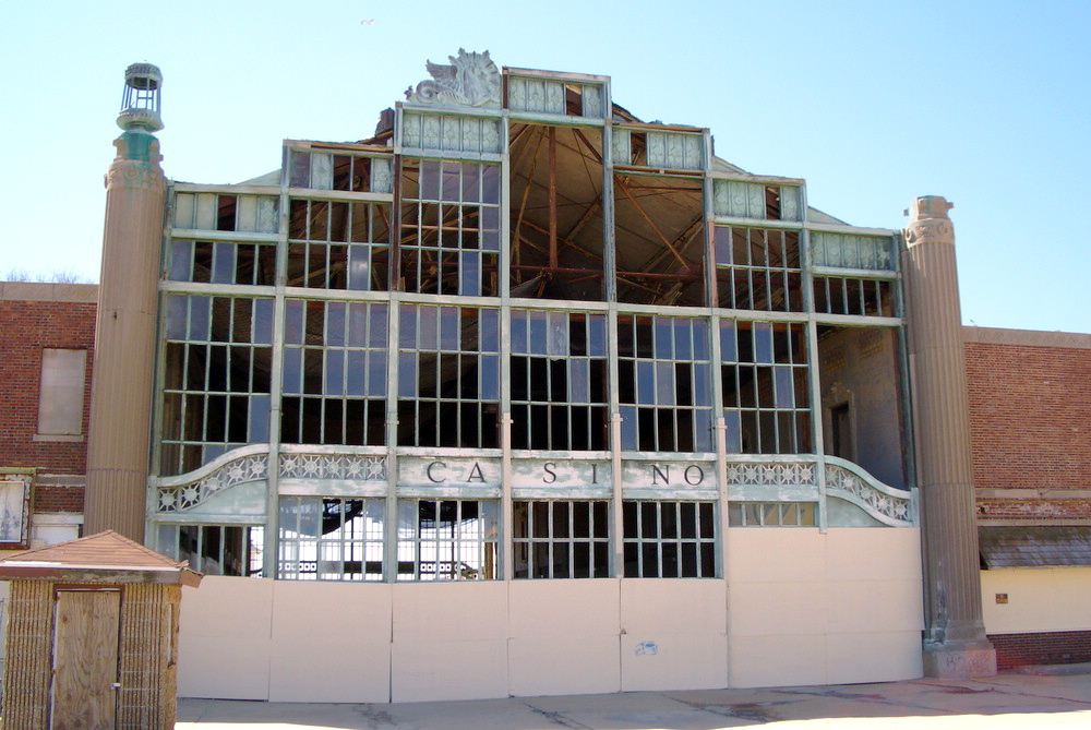 Fading shell of the Asbury Park Casino in Asbury Park.